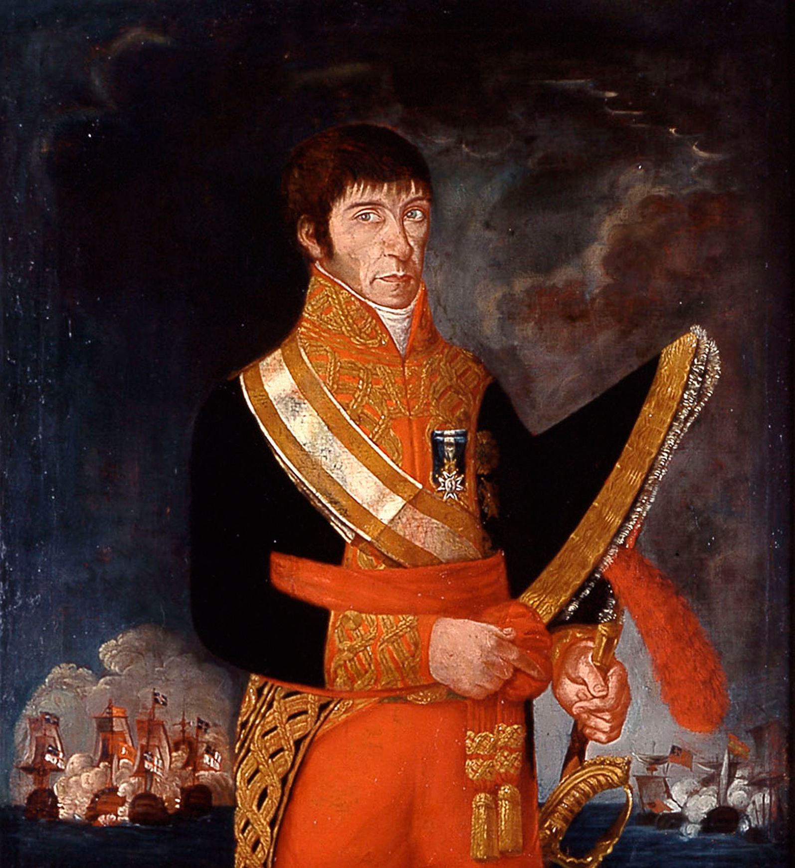 Portrait of the Admiral of the Spanish Navy Baltasar Hidalgo de Cisneros (1756-1829)